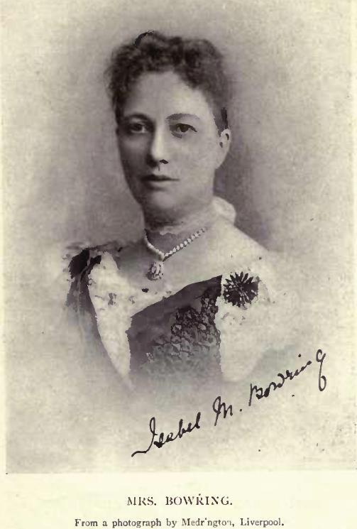 Isabel M Bowring wife of William Benjamin Bcnvring, Esquire, Lord Mayor of Liverpool